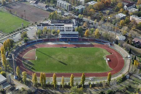 Csepel, Budapest, district XXI, Hungary, aerial photography